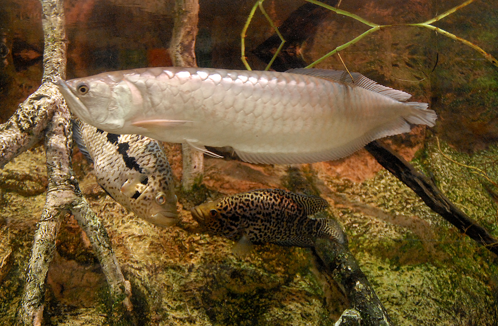 Osteoglossum bicirrhosum, silver arowana